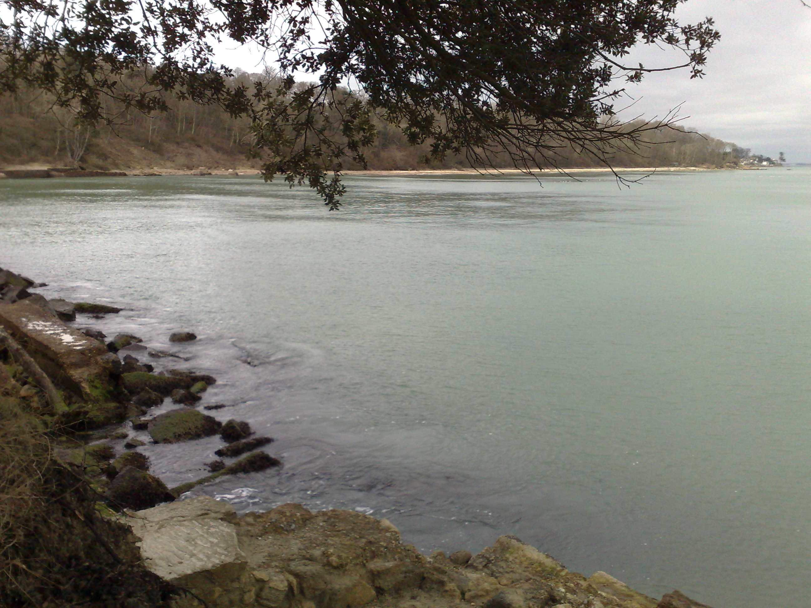 Priory Bay looking north.